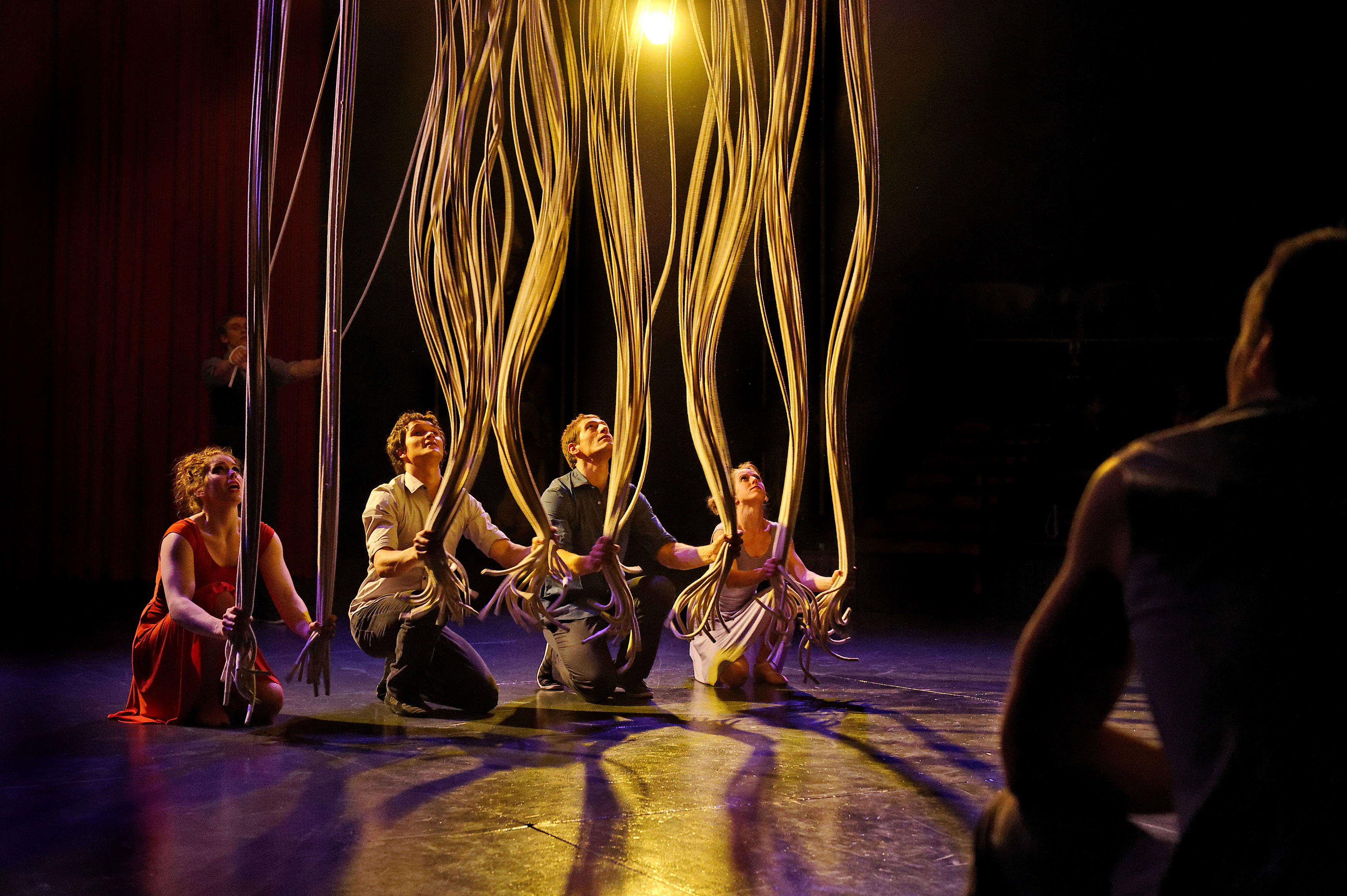 Circus Monti Ensemble 2012